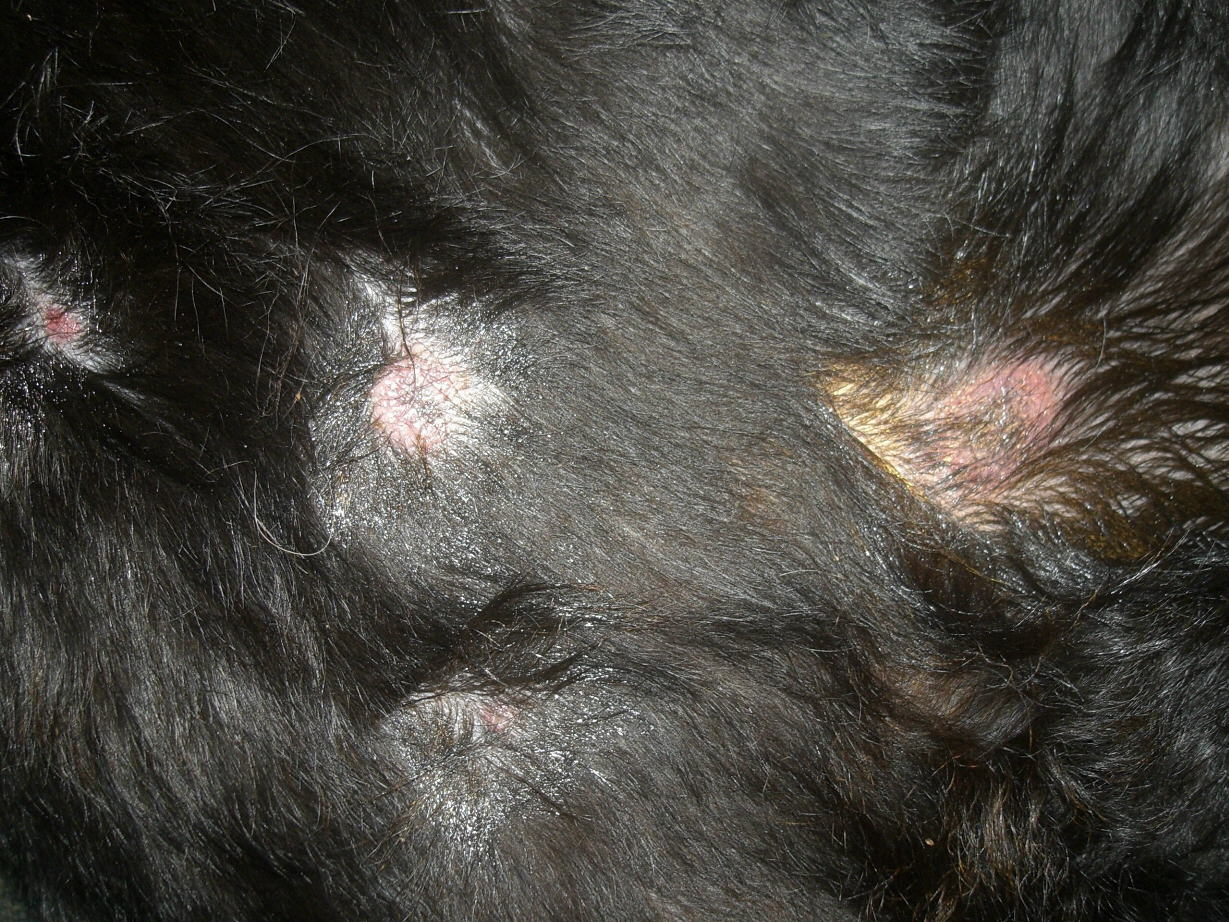 Canine leishmaniosis in a dog. own picture